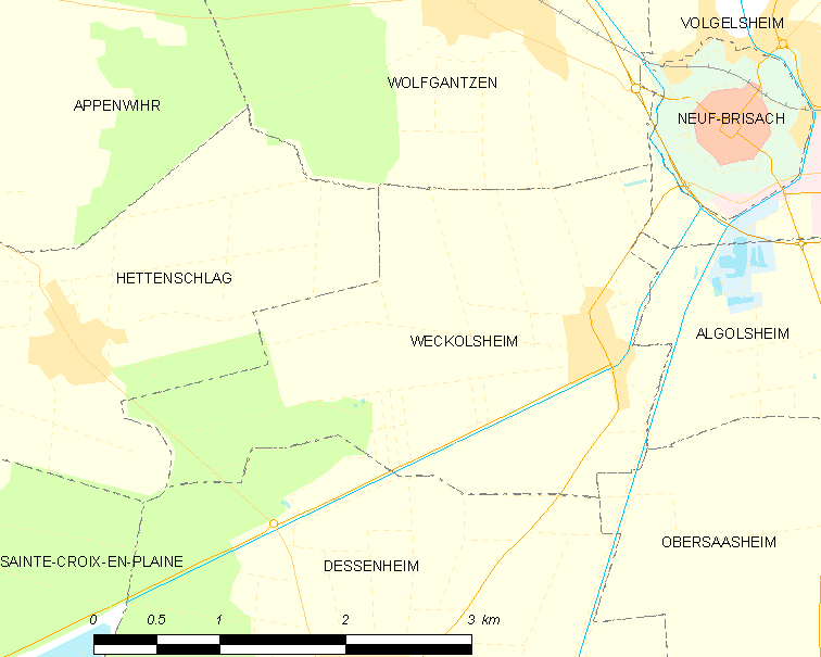 Map of French municipality